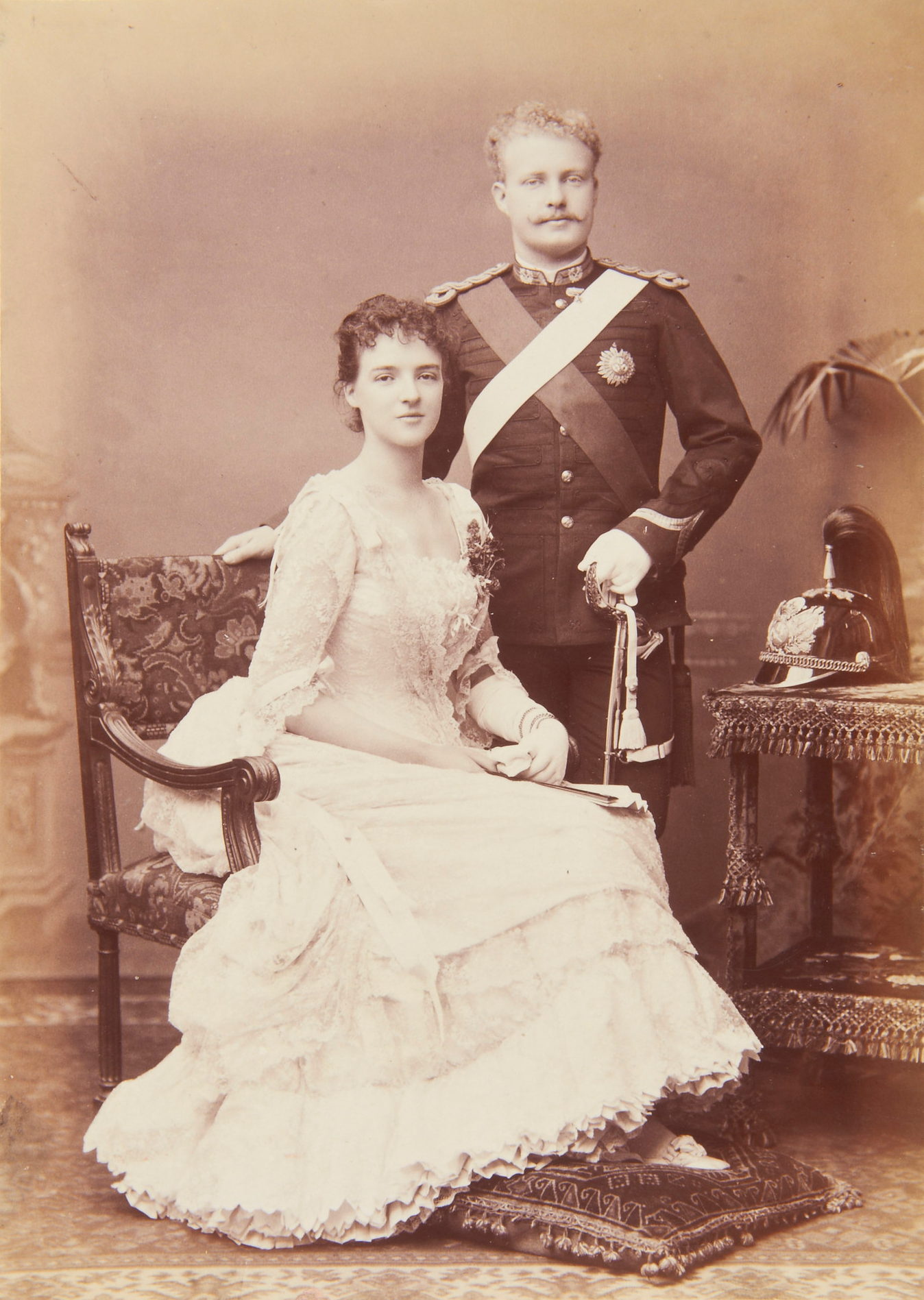 Carlos, Duke of Braganza (1863-1908), and Amélie, Duchess of Braganza, in 1886.